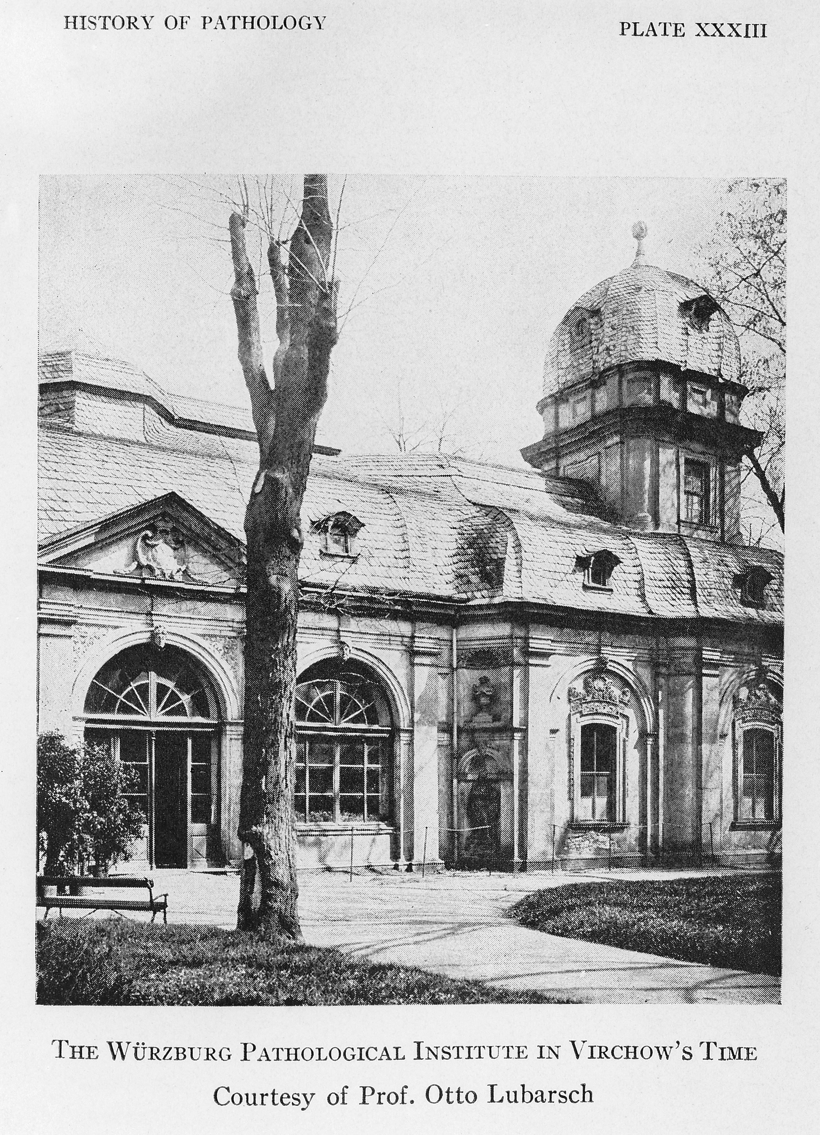 The Pathological Institution at Wurzburg in Virchow's time. Wellcome Images Keywords: Rudolf Ludwig Karl Virchow